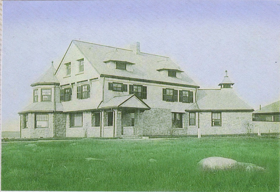 First of several summer homes of J.L. Richards West Falmouth, Mass